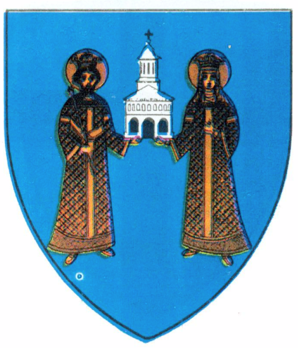 Interwar coat of arms of Ilfov County, Kingdom of Romania.